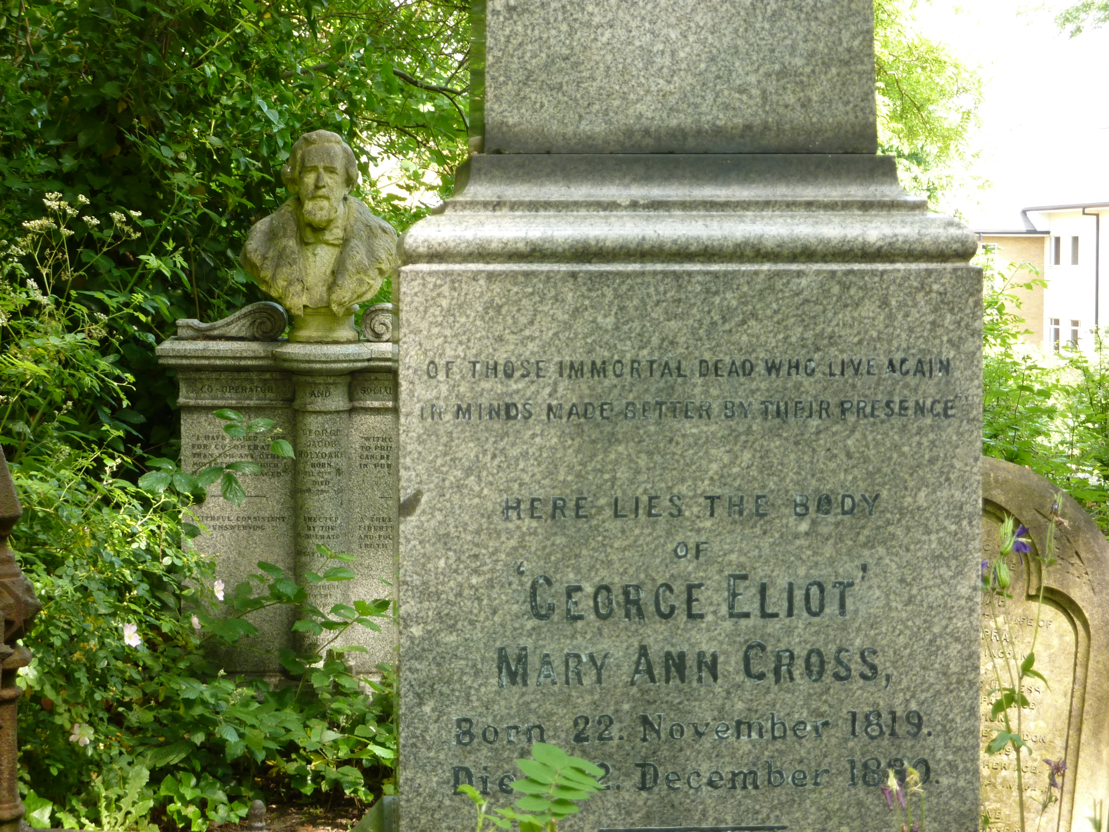 George Eliot grave in Highgate Cemetery, London, England.